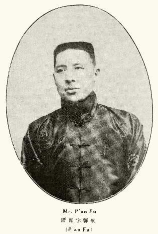 Pan Fu（1883－1936）, politician of the Republic of China in 1920s